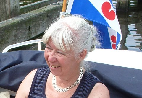 Klaske HiemstraFrysk: Klaske Hiemstra